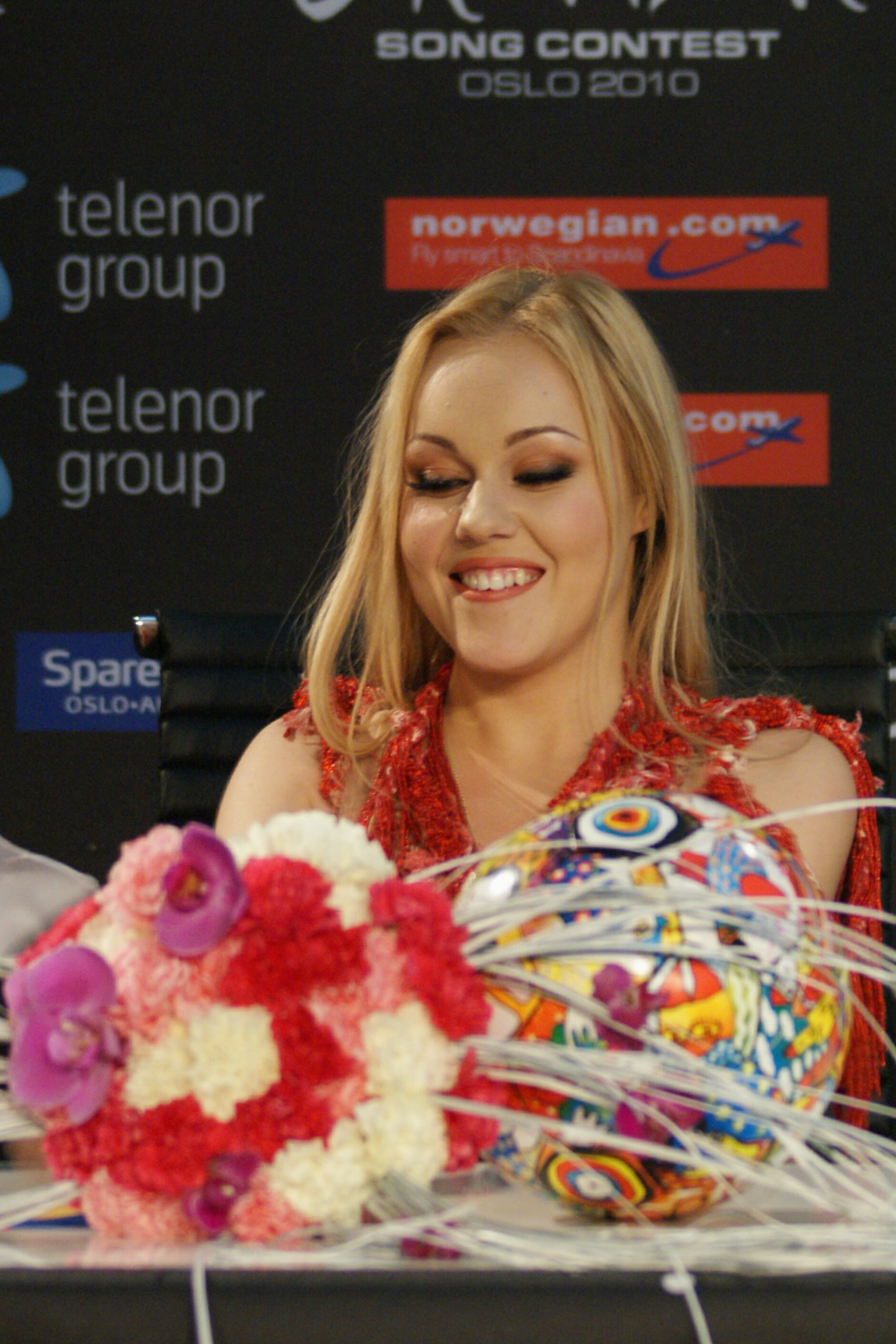 Ukrainian singer Alyosha